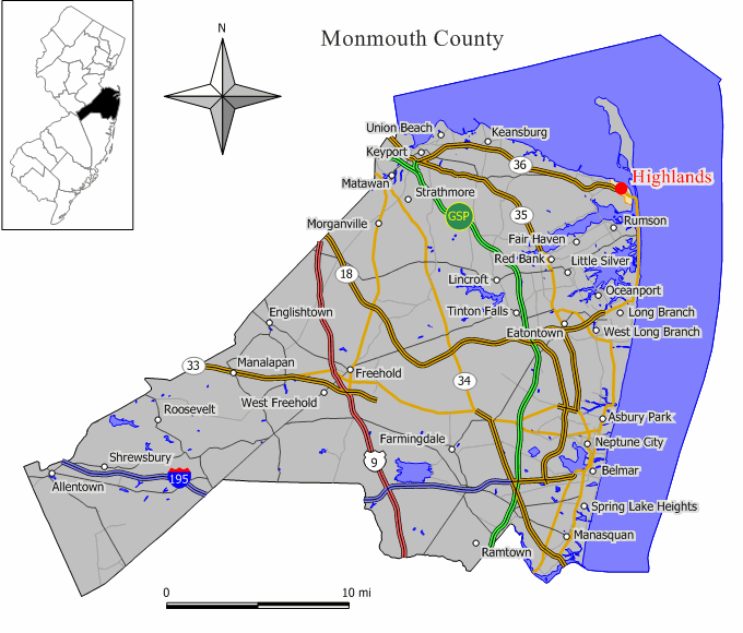 Source: Jim Irwin